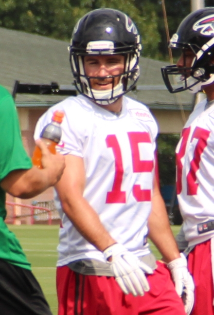 Nick Williams in 2015